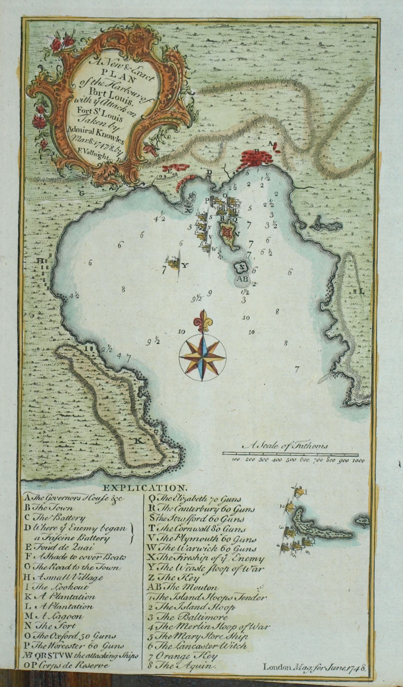 A new and exact plan of the harbours of Port Louis (1748) — for the Battle of Saint-Louis-du-Sud. In French Saint-Domingue colony (present day Haiti).